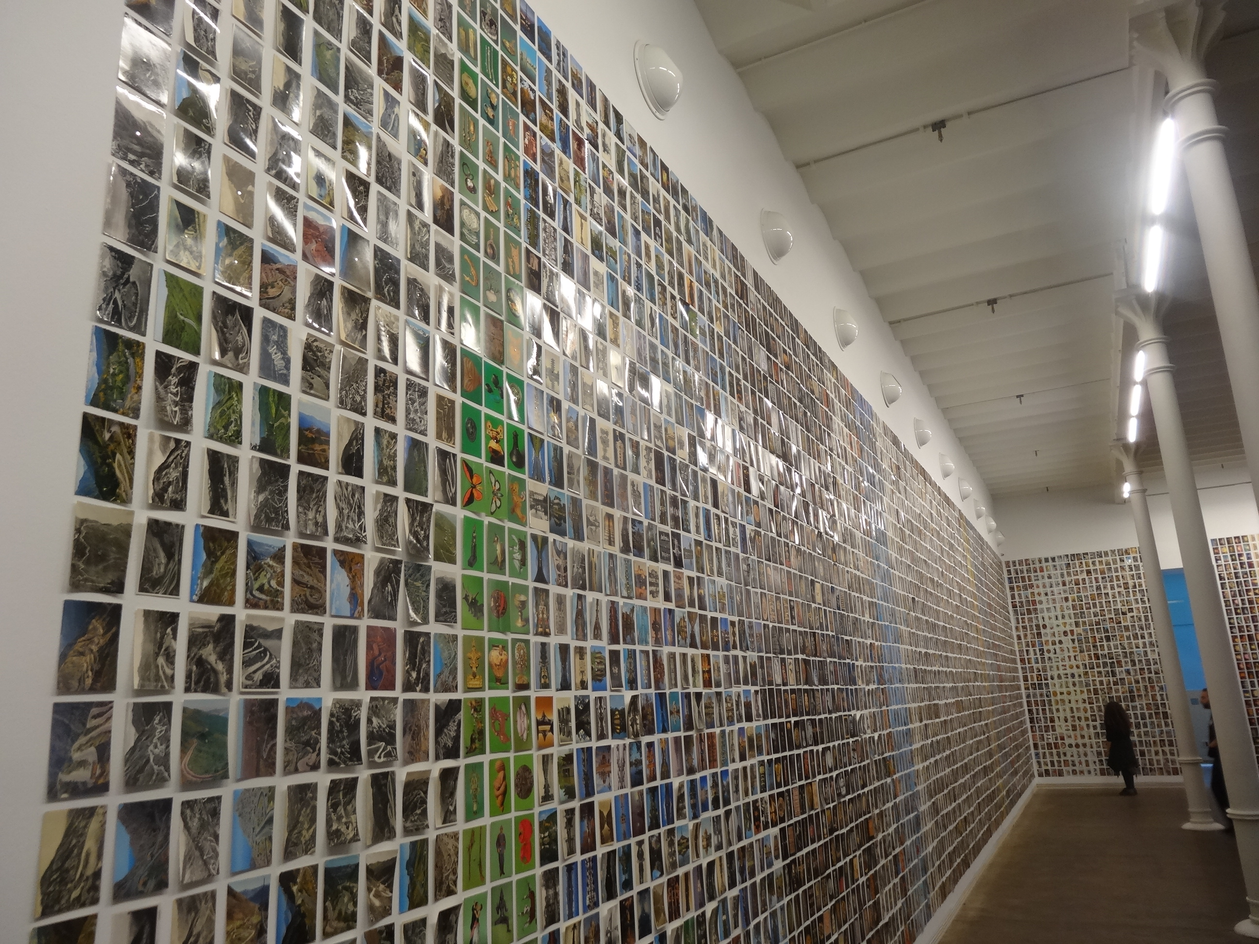 Diumenge (postcard exhibition at Fundació Tàpies, Barcelona, 2017)